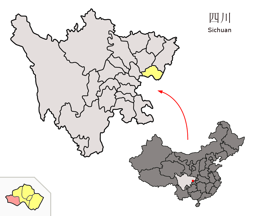 Location of Wusheng County (pink) and Guang'an Prefecture (yellow) within Sichuan province of China Map drawn in october 2007 using various sources, mainly : Sichuan province administrative regions GIS data: 1:1M, County level, 1990 Sichuan Counties map from